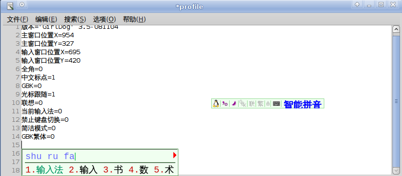 Fcitx within Mousepad